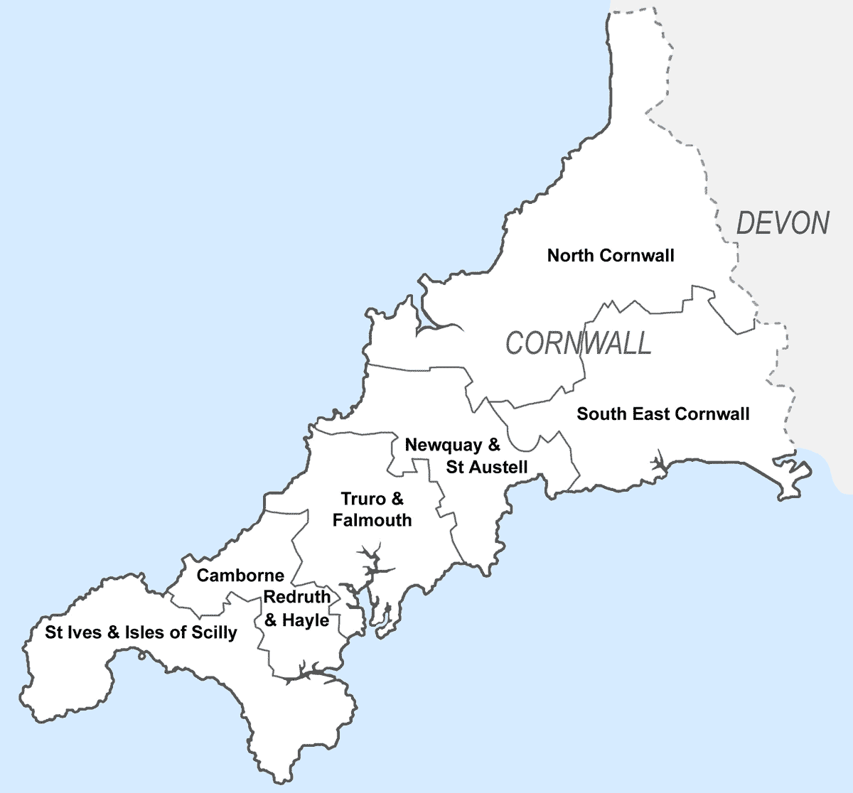 Sketch map showing the six UK parliamentary contituencies in Cornwall which were contested in the 2010 general election